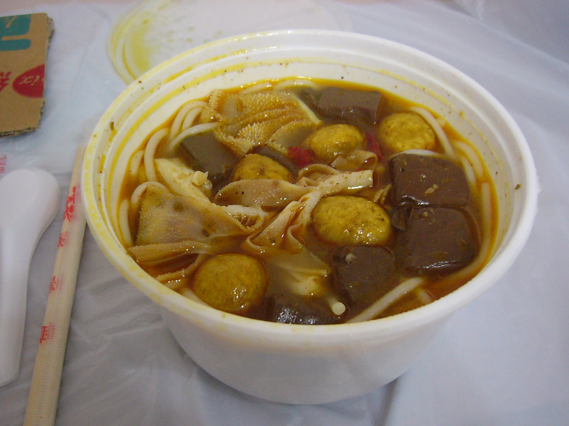 Hong Kong Style Cart Noodle